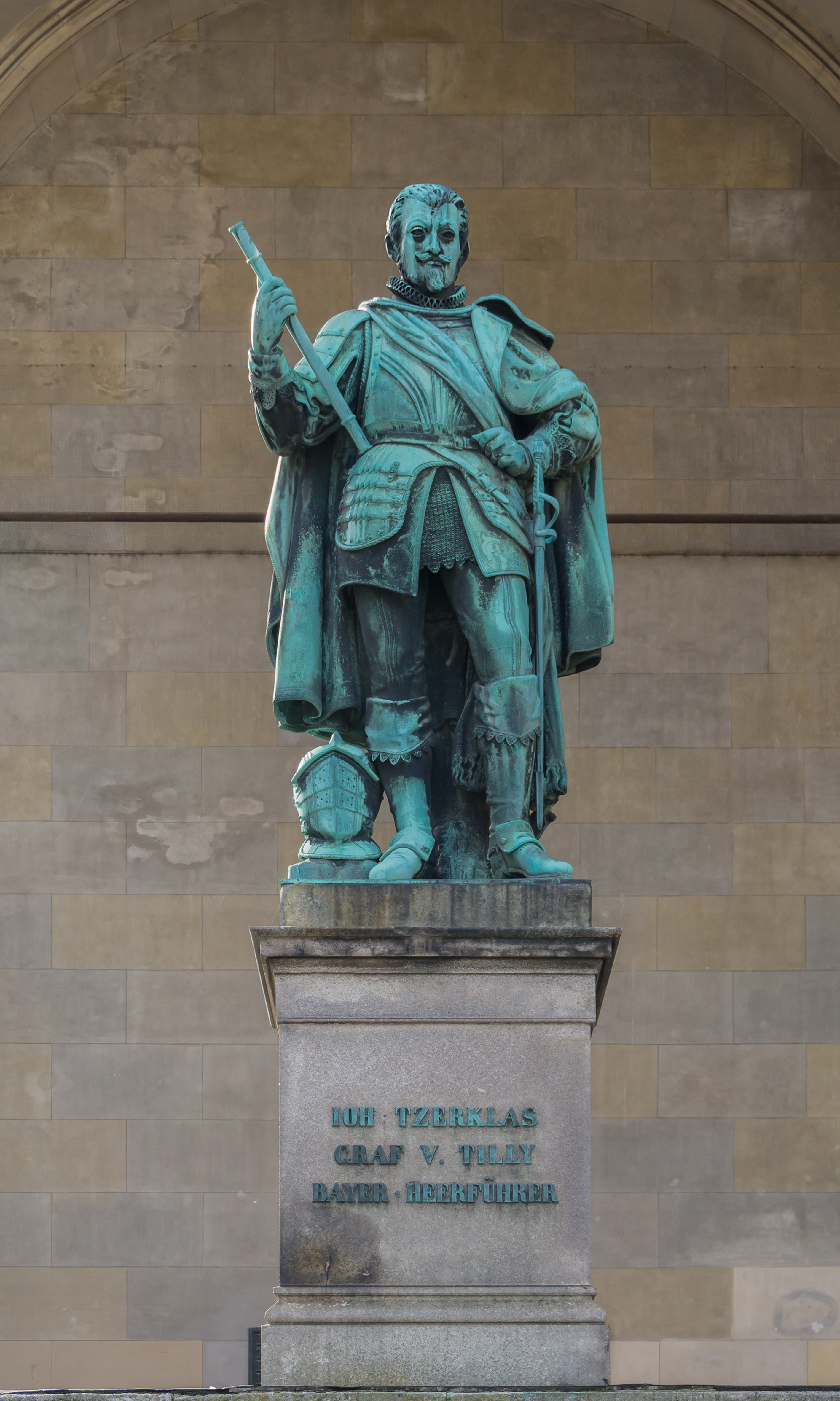 Johann Tserclaes, Count of Tilly, statue, Feldherrnhalle, Munich, Bavaria, Germany.